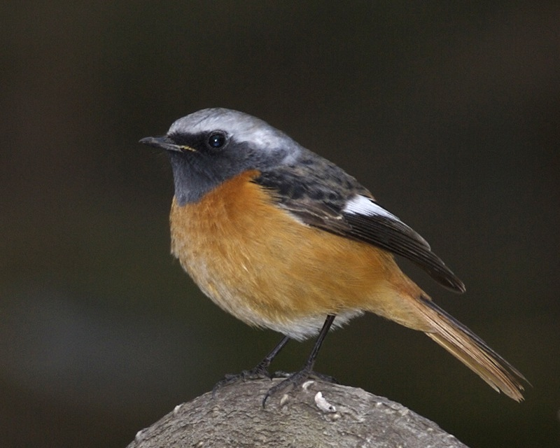 Daurian Redstart Phoenicurus auroreus - Male Kyoto, Japan 20th. March 2007